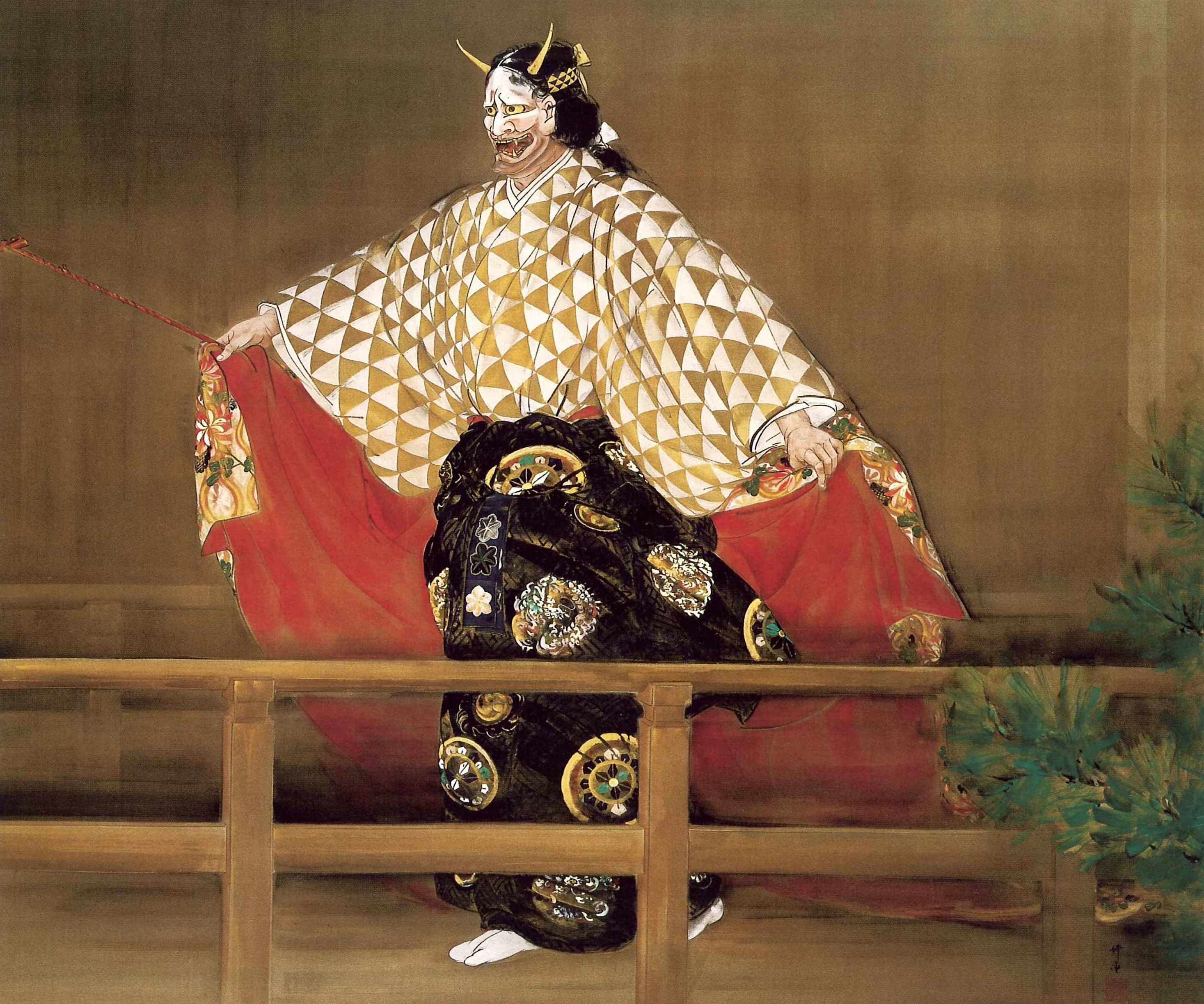 Dojoji, painting on silk, 148.5 x 176.3 cm